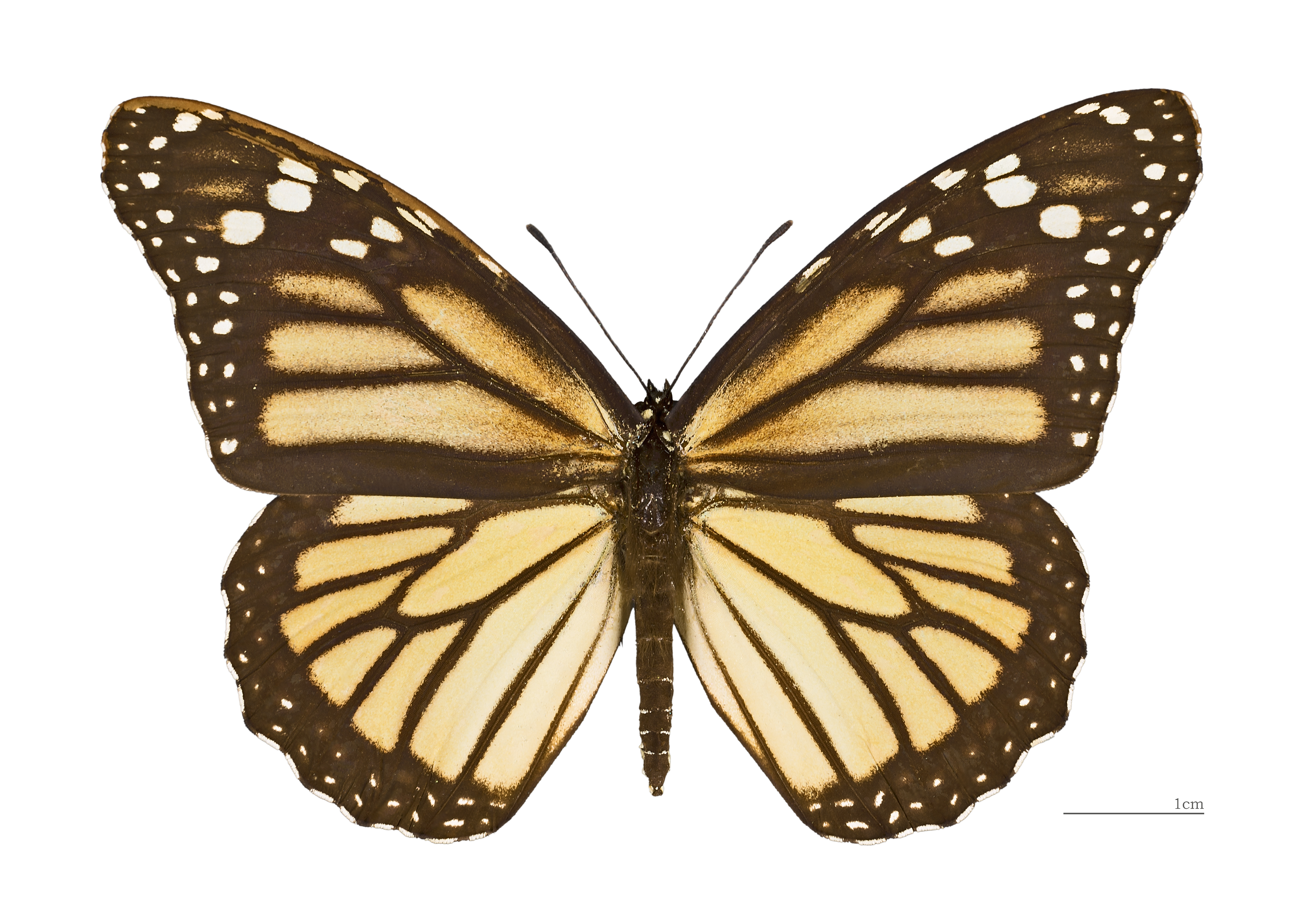 Monarch butterfly. Dorsal side